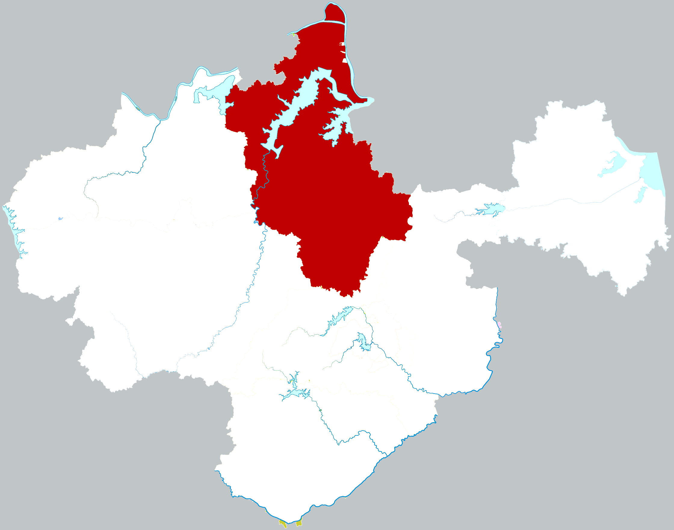 Location of Mingguang county-level city in Chuzhou city, China